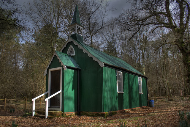 Upper Itchen Benefice Church In The Woods Bramdean This iron church was built in 1883 at the instigation of the Rev. Alfred Ceaser Bishop MA (the rector of Bramdean)in order that the commoners, charcoal burners and gypsy itinerants who used Bramdean Common were able to attend a church. His widow, Louisa Francis Katharine died in 1893 and endowed in her will monies to be held in trust to ensure the future of the church. This fund is now a Registered Charity and is the responsibility of three trustees together with the rector of Bramdean who manage and maintain the church.